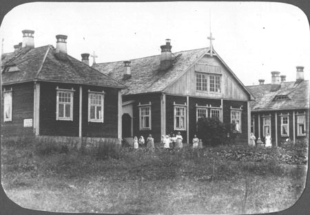 Retirement home, Virrat, Finland